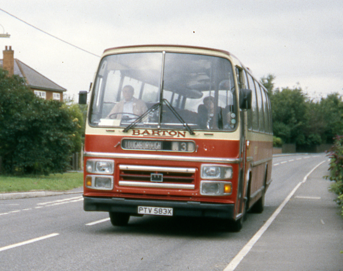 Barton Transport Leyland Leopard / Plaxton Supreme IV number 583, PTV 583X, on The Green, Long Whatton, on service 3 to Loughborough, summer 1989.